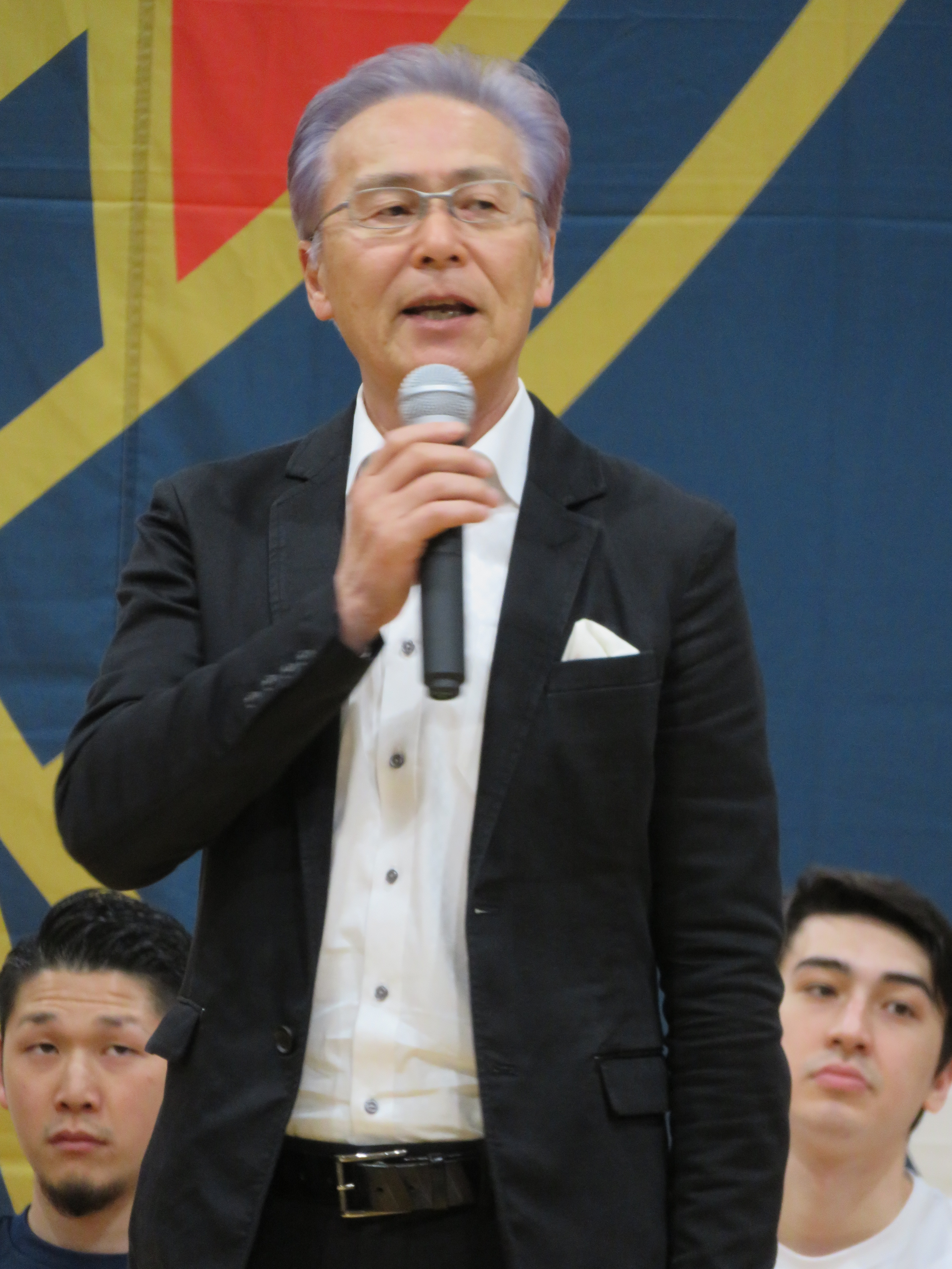 Yokohama B-Corsairs Fan Event 2019-5-19